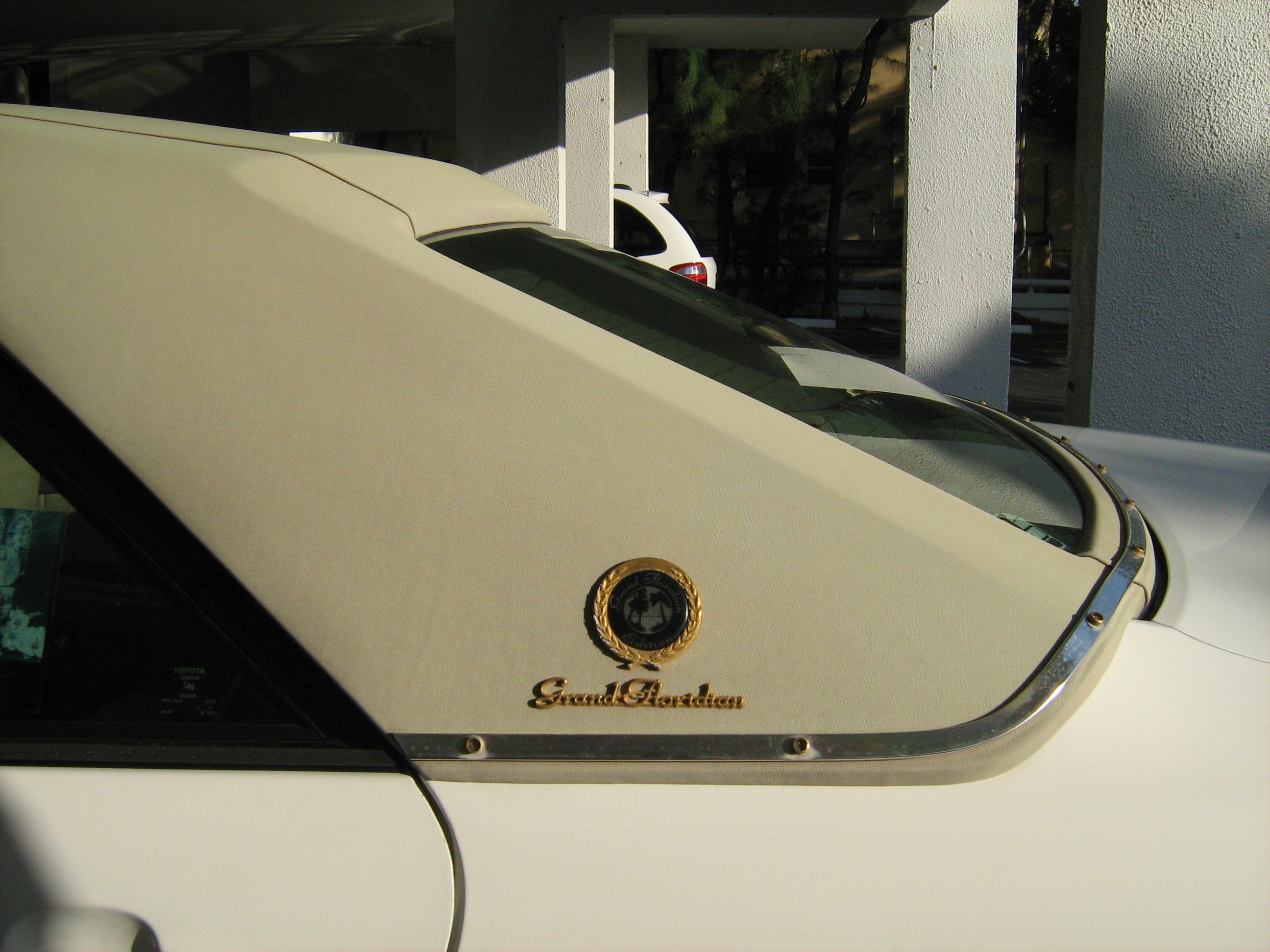 Add-on vinyl top (detail view of the "C-pillar") marketed as the "Grand Floridian". In this case, it is applied on a Toyota Camry.